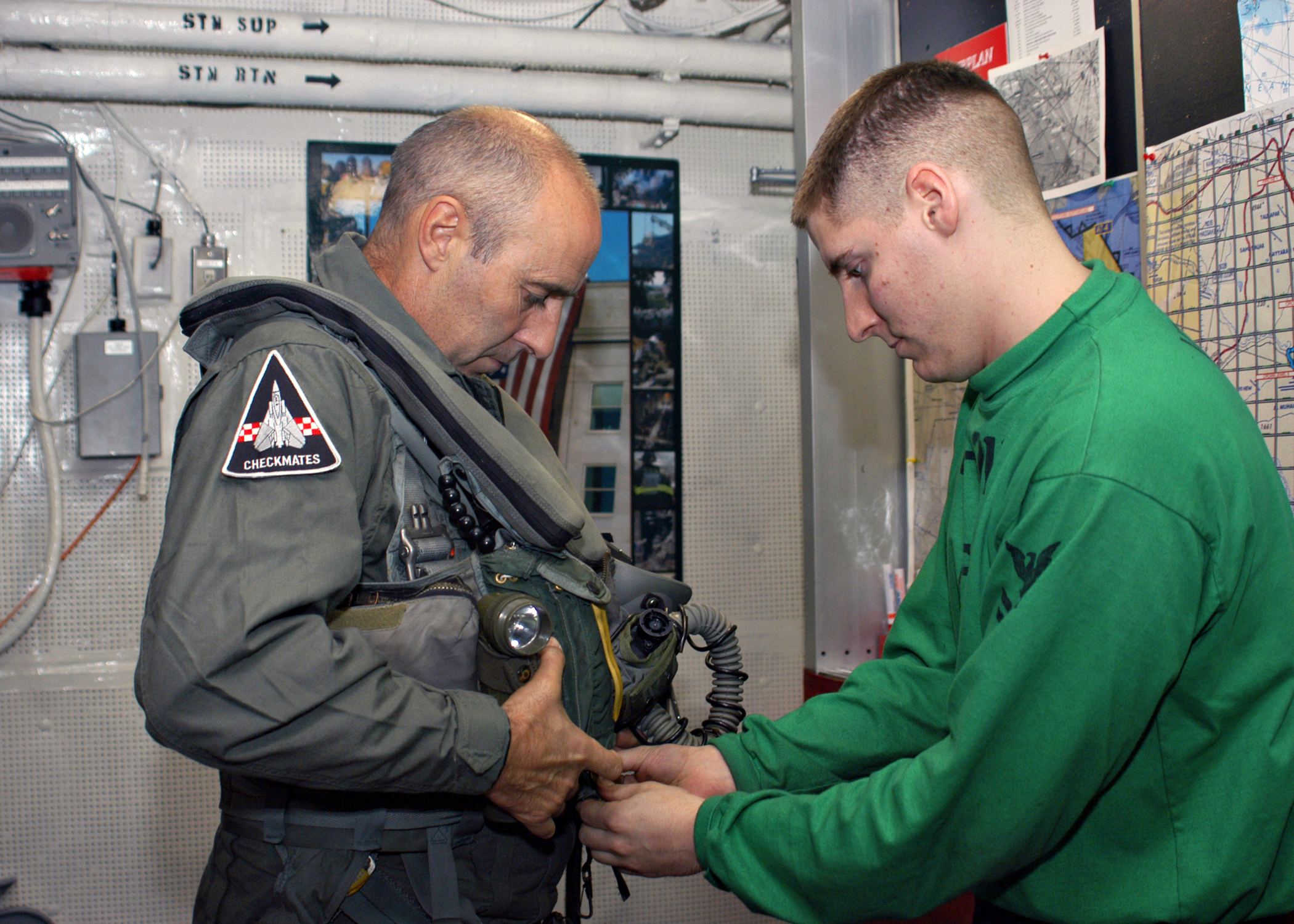 At sea aboard USS Enterprise (CVN 65) Nov. 27, 2003 -- British Major General Graeme Lamb is fitted for his flight suit by Aircrew Survival Equipmentman 2nd Class Jeffery D. Schmidt, from Milwaukie, Ore., prior to a familiarization flight in an F-14 Tomcat assigned to the “Checkmates” of Fighter Squadron 211 (VF-211), aboard USS Enterprise (CVN 65). General Lamb is on a one-day visit to Enterprise and is Commander of the 3rd Army Division, United Kingdom. The nuclear powered aircraft carrier is currently deployed to the Arabian Gulf. U.S. Navy photo by Photographer's Mate Airman Jennifer L. Brown. (RELEASED)